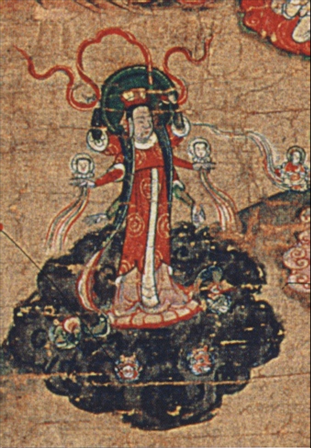 Virgin of Light, detail of the Manichaean Diagram of the Universe, Yüen dynasty.